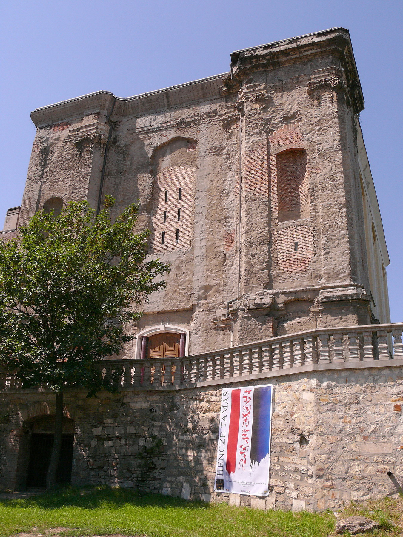 The ruined Kiscell Church